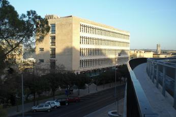 Building of the local government of the province of Ragusa, Sicily.